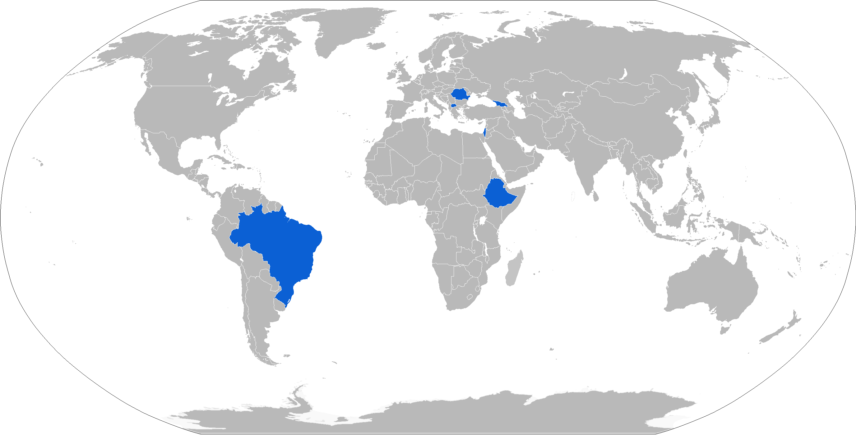 Map of Wolf armoured vehicle operators in blue